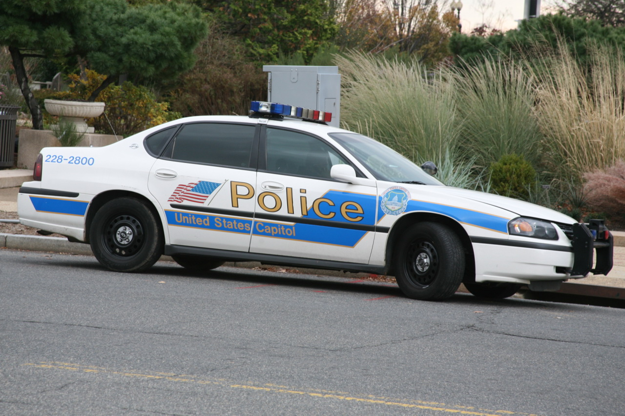 A police car used by the United States Capitol Police The United States Capitol Police (USCP) is a police force charged with protecting the United States Congress within the District of Columbia and throughout the United States and its territories. Created by Congress in 1828 following the assault on a son of John Quincy Adams in the Capitol Rotunda, the original duty of the United States Capitol Police was to provide security for the United States Capitol Building. Its mission has expanded to provide the Congressional community and its visitors with a variety of police services. These services are provided through the use of a variety of specialty support units, a network of foot and vehicular patrols, fixed posts, a full time CERT unit, K-9, a Patrol/Mobile Response Division and a full time Hazardous Devices and Hazardous Materials Sections. The agency has 1,700 members as of 2007. Today's United States Capitol Police officer has the primary responsibility for protecting life and property; preventing, detecting, and investigating criminal acts; and enforcing traffic regulations throughout a large complex of congressional buildings, parks, and thoroughfares. The USCP has exclusive jurisdiction within the United States Capitol Grounds and has concurrent jurisdiction with other police agencies, including the United States Park Police and the DC Police, in an area of approximately 200 blocks around the complex. Additionally, they are charged with the protection of Members of Congress, Officers of Congress, and their families throughout the entire United States, its territories and possessions, and the District of Columbia.